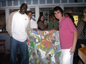 The Artist, George Pocheptsov with Basketball Legend Michael Jordan (2009)